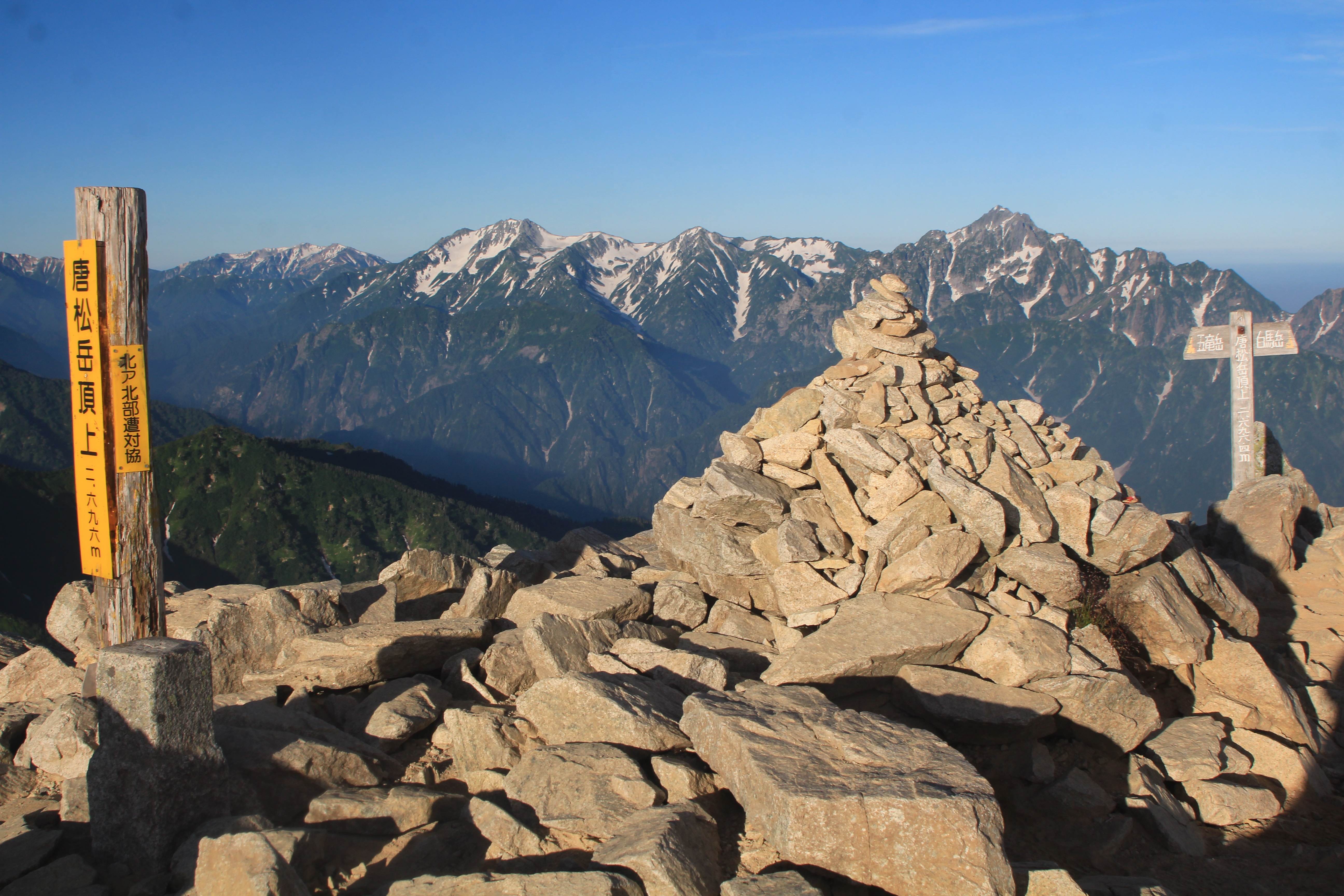 Peak of Mount Karamatsu and Tateyama Mountains in Hida Mountains, Japan.